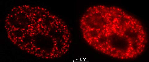 Single optical sections of a fixed HeLa-cell nucleus with a scratch replication label highlighting sites of DNA replication. Left: recording in confocal mode (pinhole = 1 Airy unit). Right: recording in non-confocal mode (completely open pinhole).